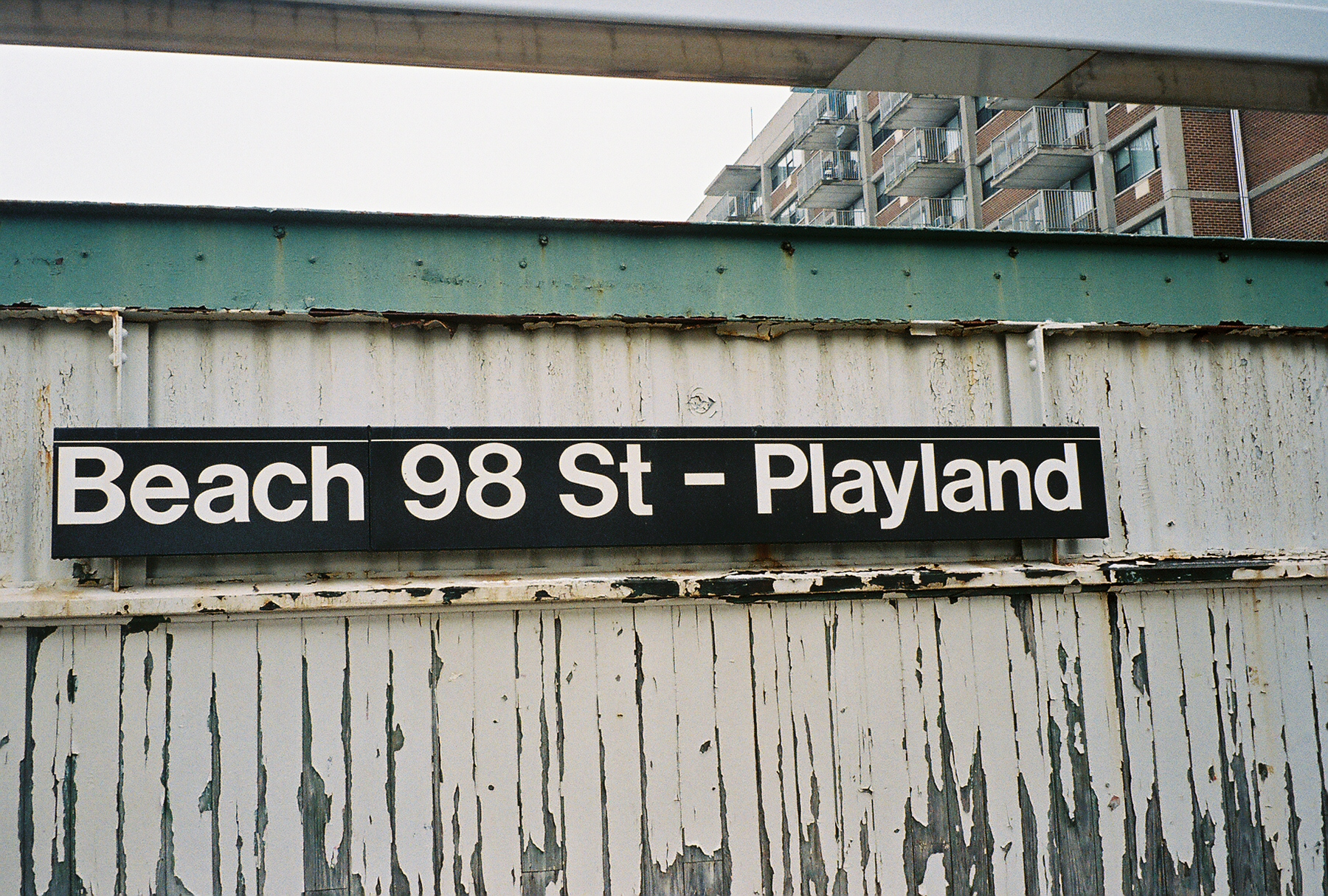 Photo for Wikipedia:Wikipedia Takes the Subway